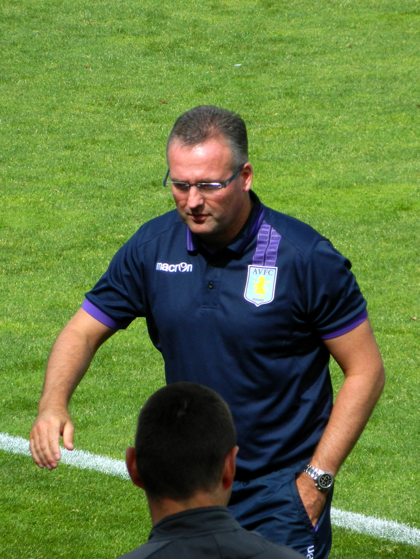 Paul Lambert on the touchline for Aston Villa v Shamrock Rovers 04/08/2013